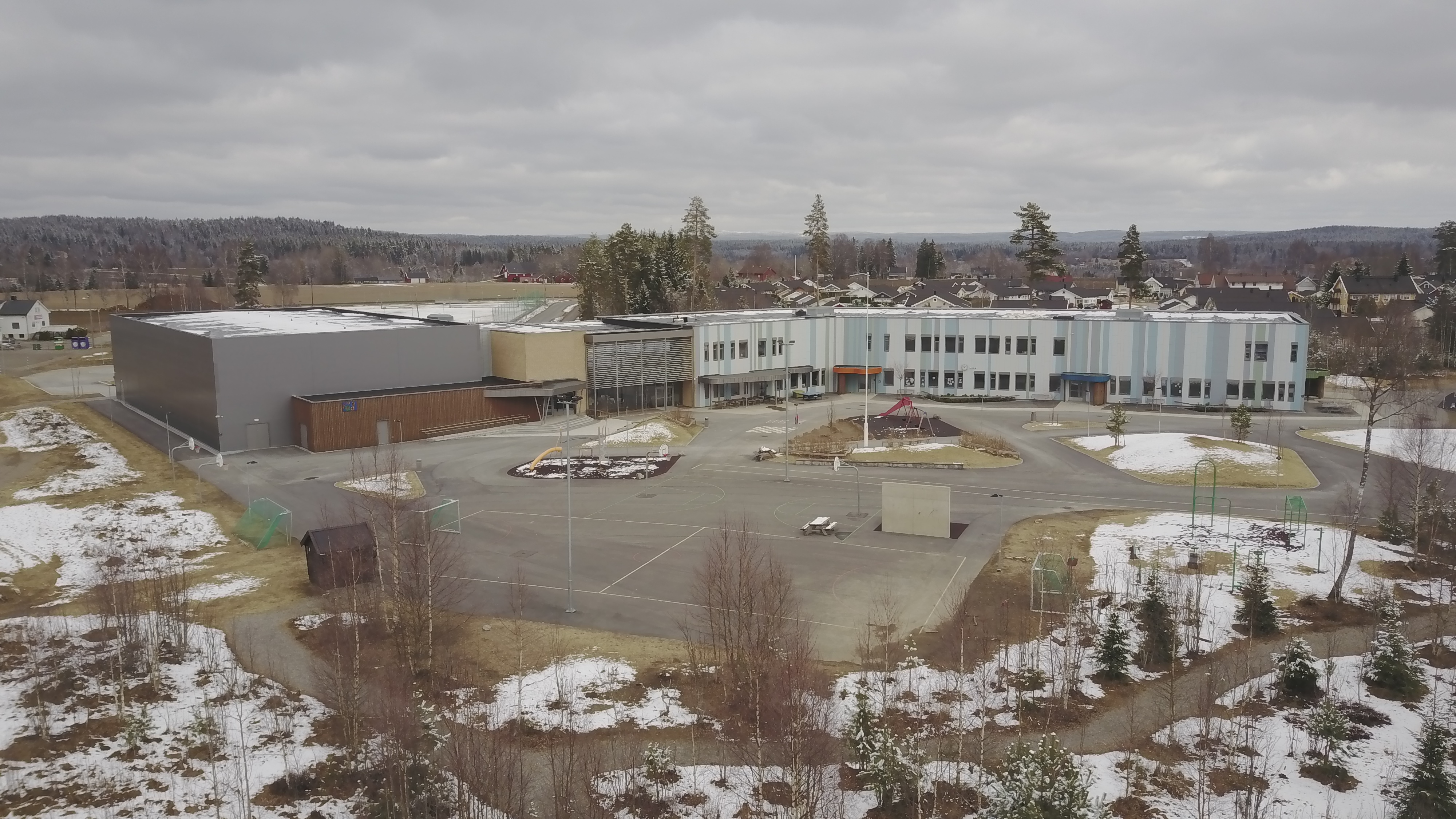 Nordkisa school